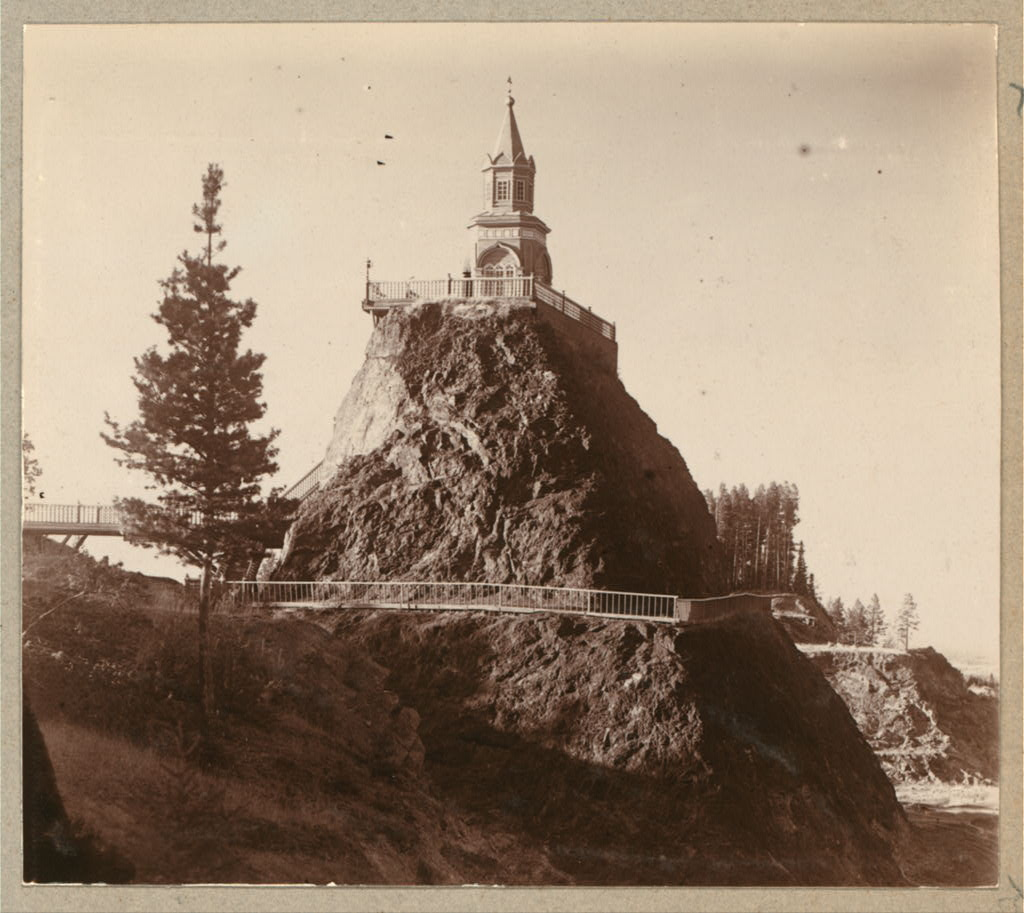 Blagodat hill summit